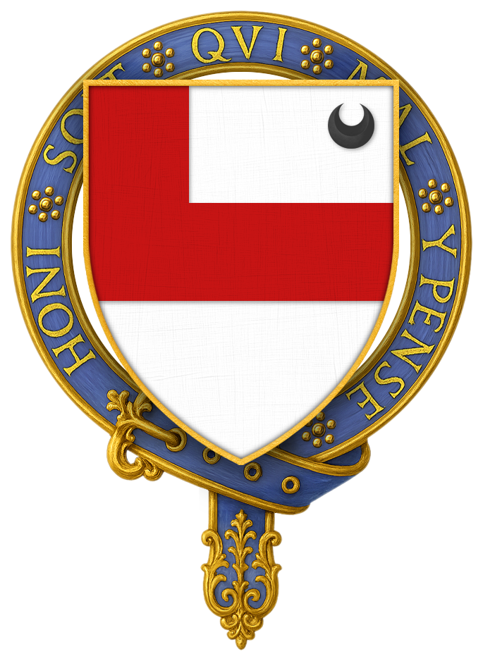 Coat of arms of Sir Edward Woodville, Lord Scales, KG